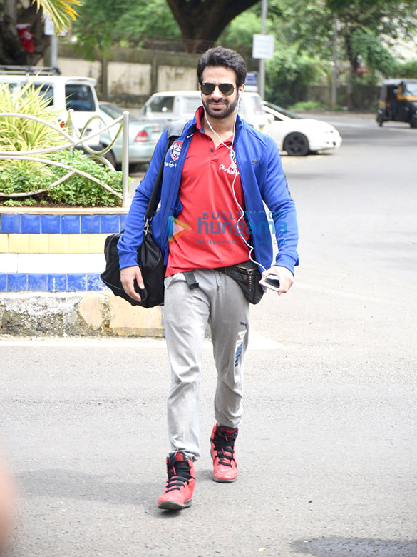 Karan Veer Mehra depart for All Stars Football match in Delhi